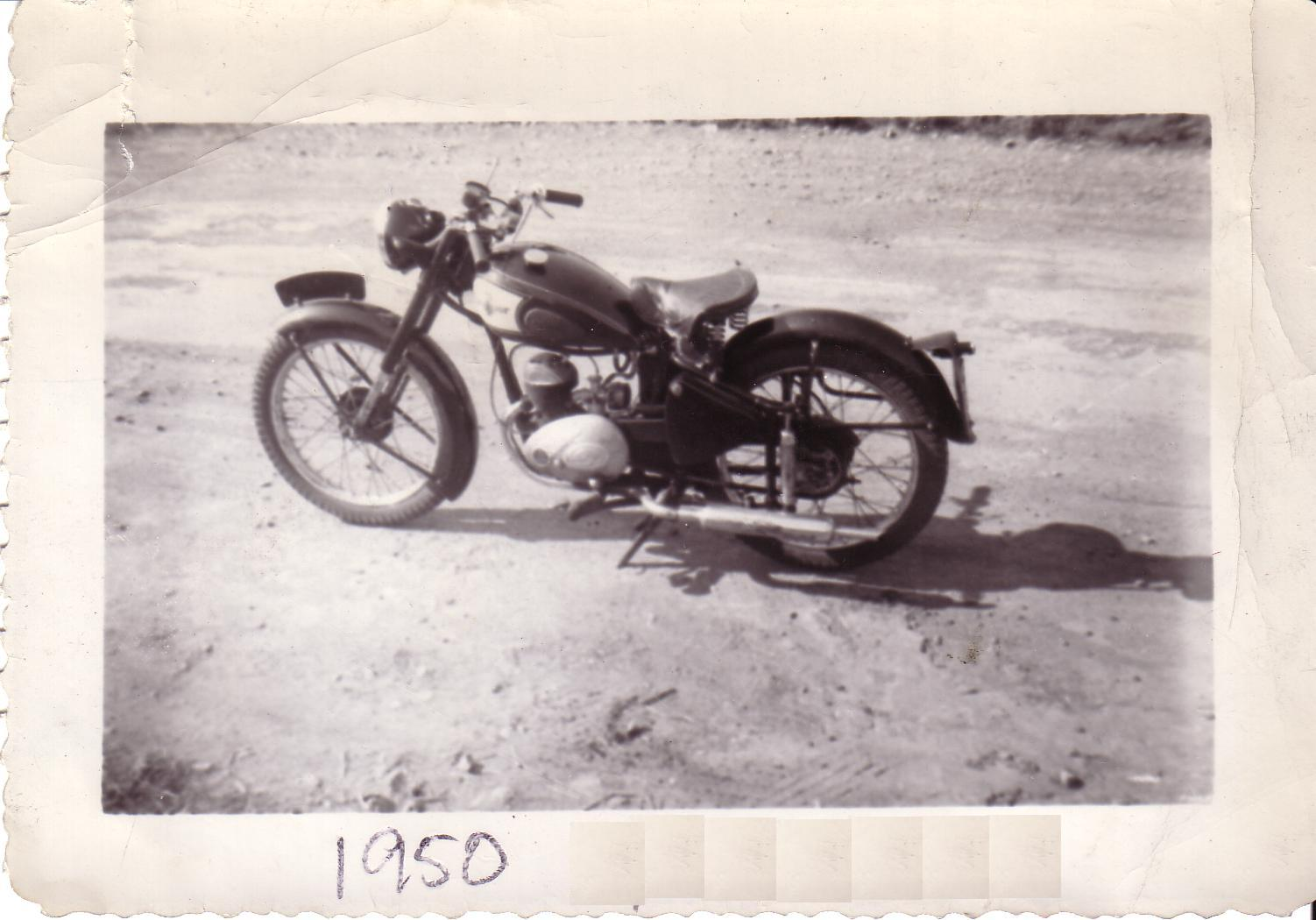 1950 Excelsior Universal 125cc. Purchased by William O. Enright June 3rd, 1950 from British & Continental Motor Sales Ltd. (Dealers for Manufacturers of Britains Finer Cars), 4232 Ste. Catherine Street West, Montreal, Canada for the price of $327.00 Menright63 16:07, 21 April 2007 (UTC)